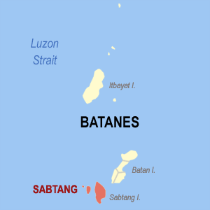 Map of Batanes showing the location of Sabtang